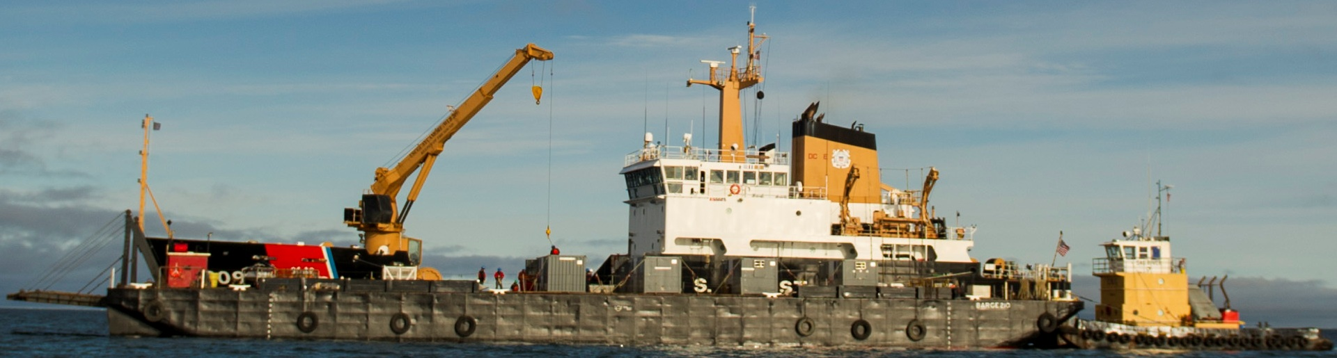 USCGC Sycamore (WLB-209).